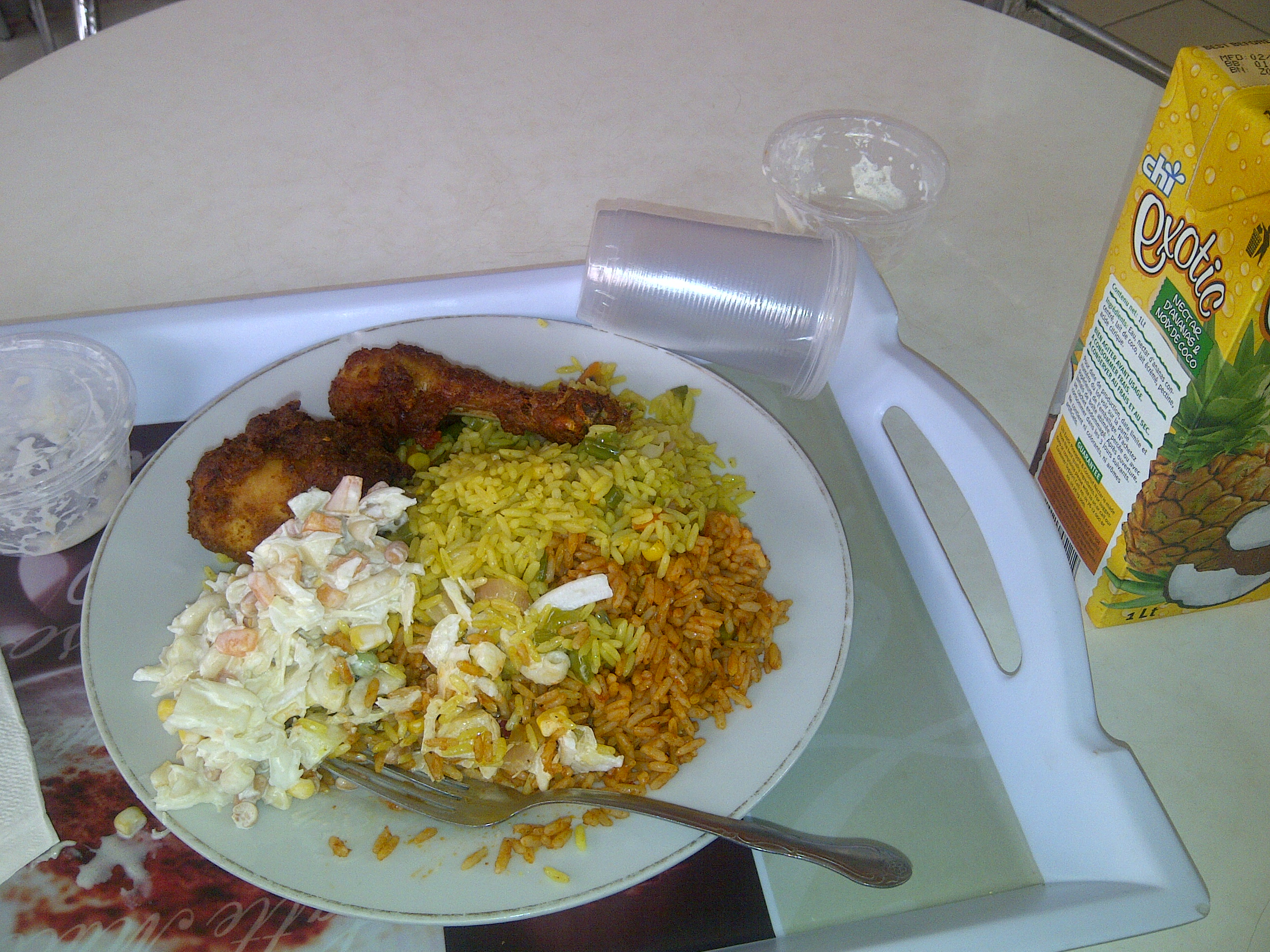 Fried Rice, Jollof rice and salad, served with Grilled Chicken This is an image of food from Nigeria